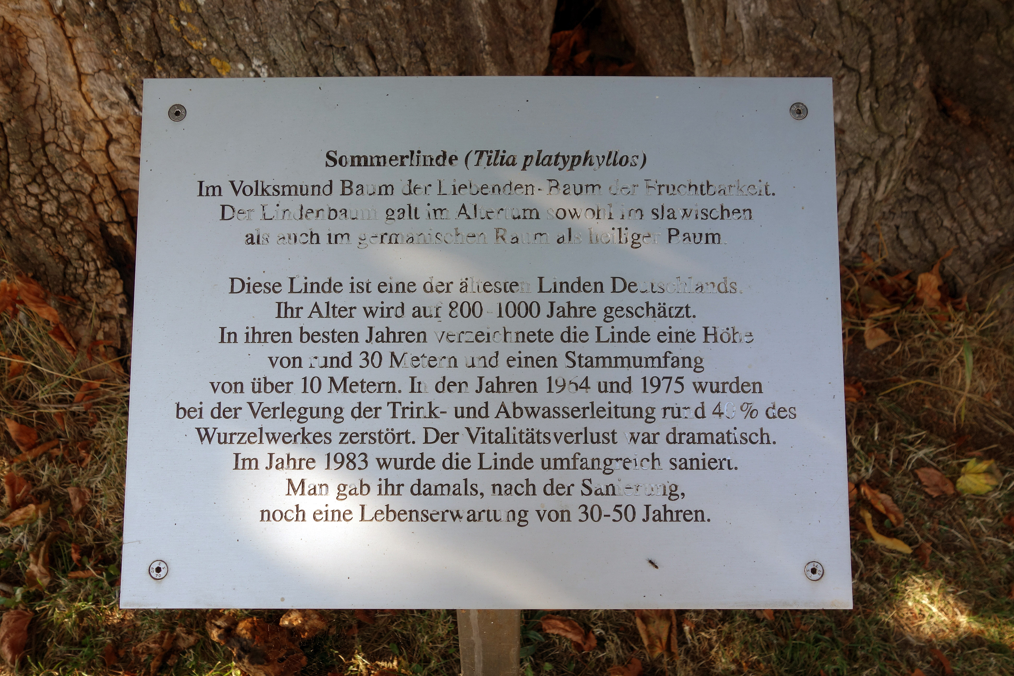 Linde Hohenbodman, Informationstafel